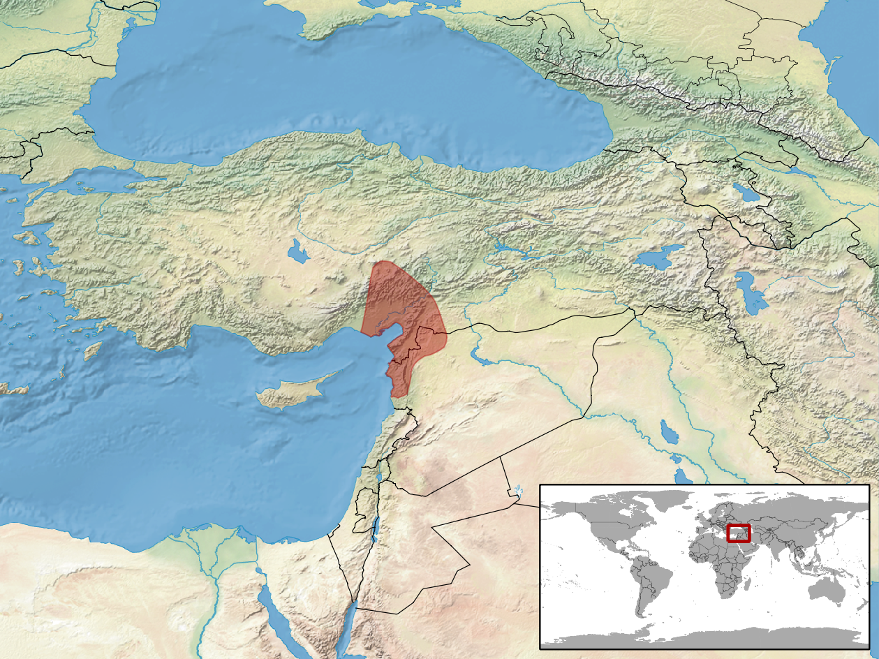 geographic distribution of Eirenis barani (Native: Syrian Arab Republic; Turkey)